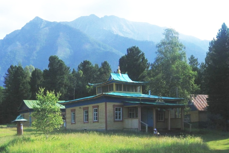 Khoymorsky datsan near Arshan (Buryatia)